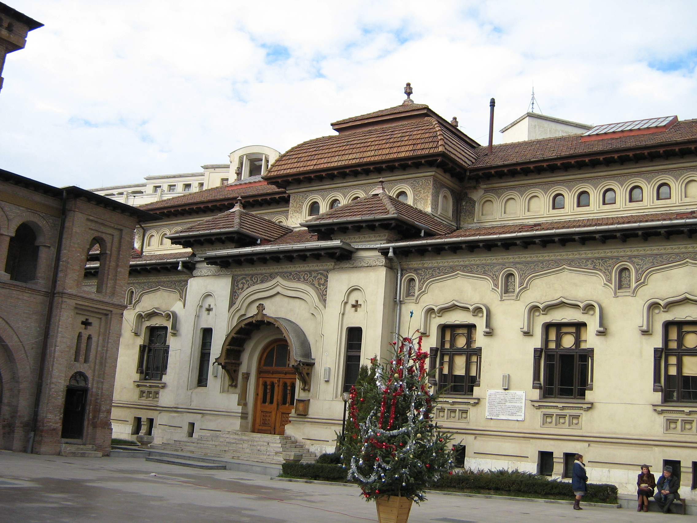 Antim Monastery, Bucharest, Romania.